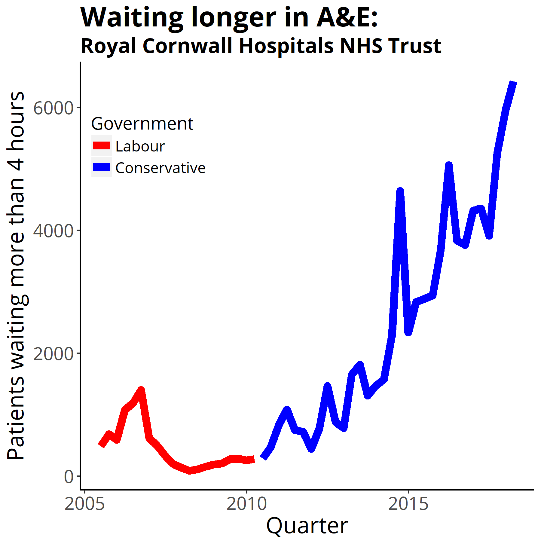 Four-hour target in the emergency department quarterly figures from NHS England Data from